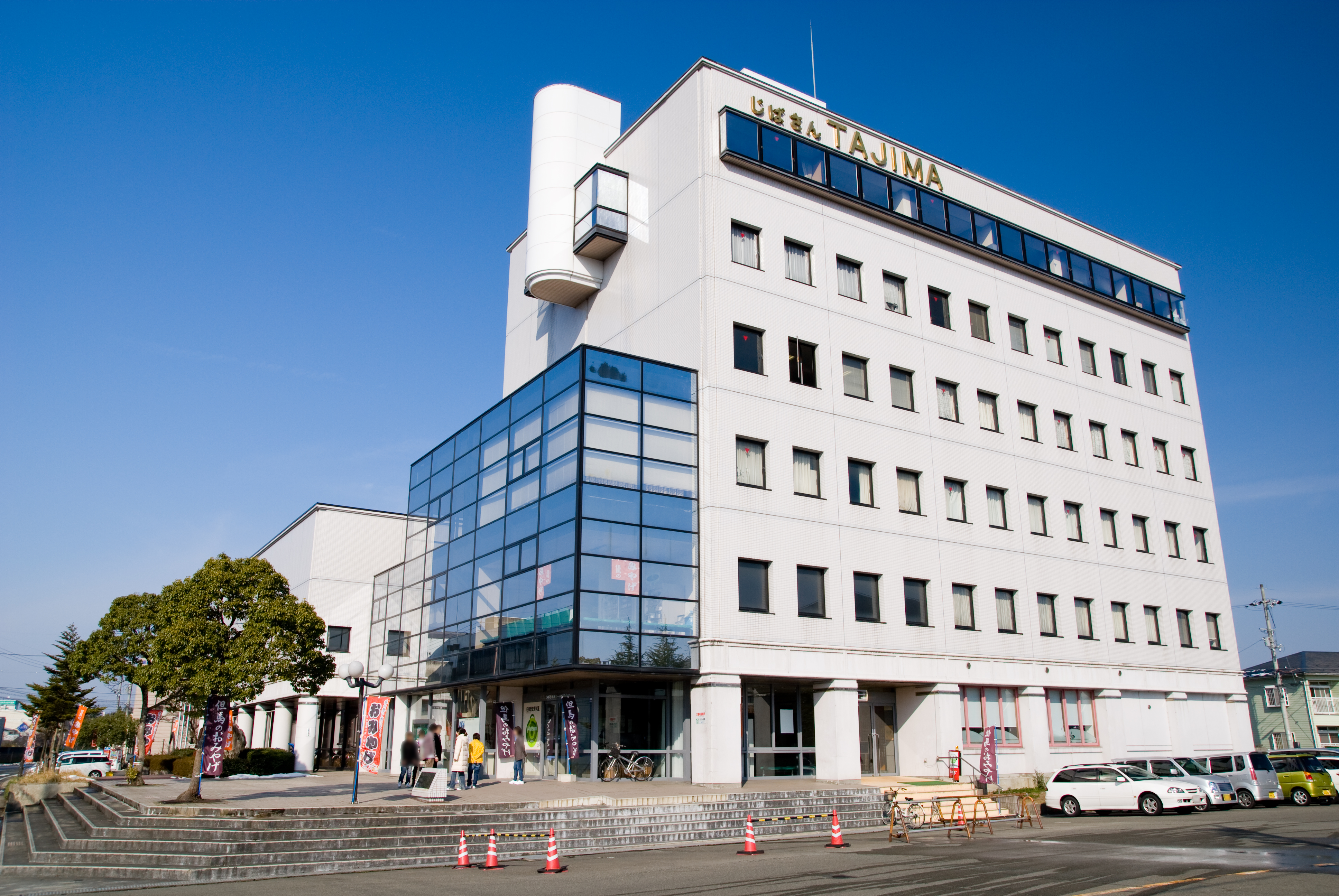 Jibasan-TAJIMA in Toyooka Hyogo.